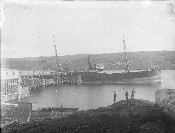 Description from Image of "S.S. Regulus" at an unidentified wharf in Harbour Grace, Newfoundland. The southside of Harbour Grace is visible in the background; three young boys are in the foreground. Photo creation date estimated between 1878 and 1910. The ship sank in 1910, so clearly the photo was taken before then.